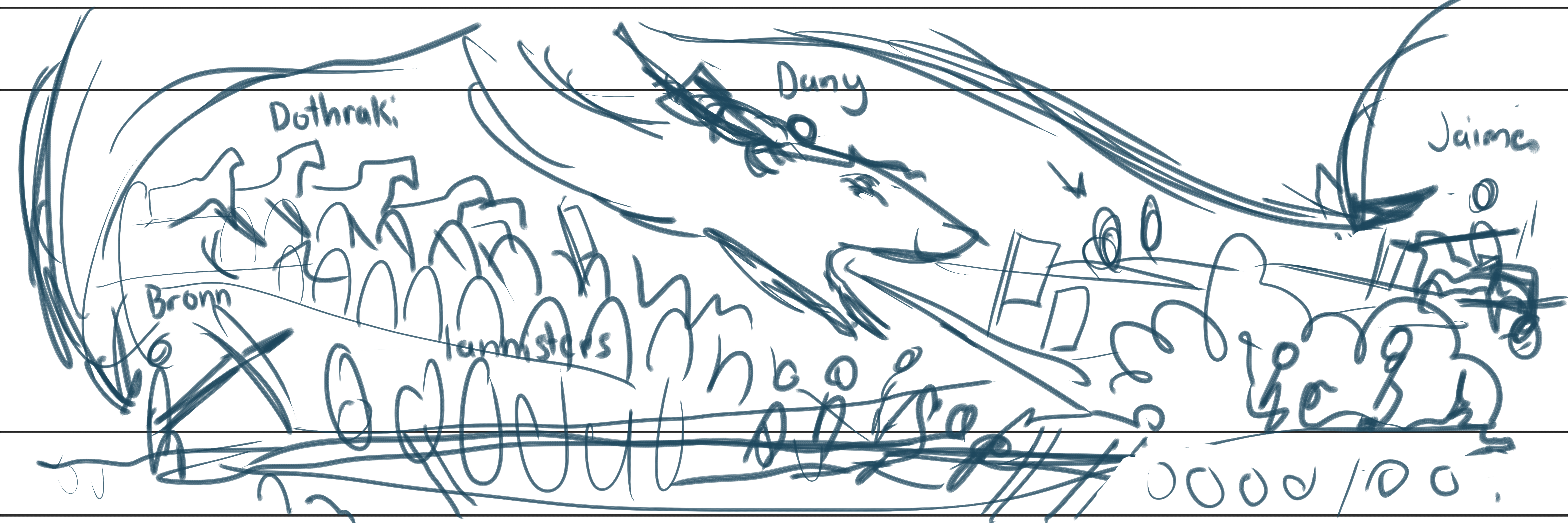 Game of Thrones Tapestry Panel 7 Episode 4 rough scamp